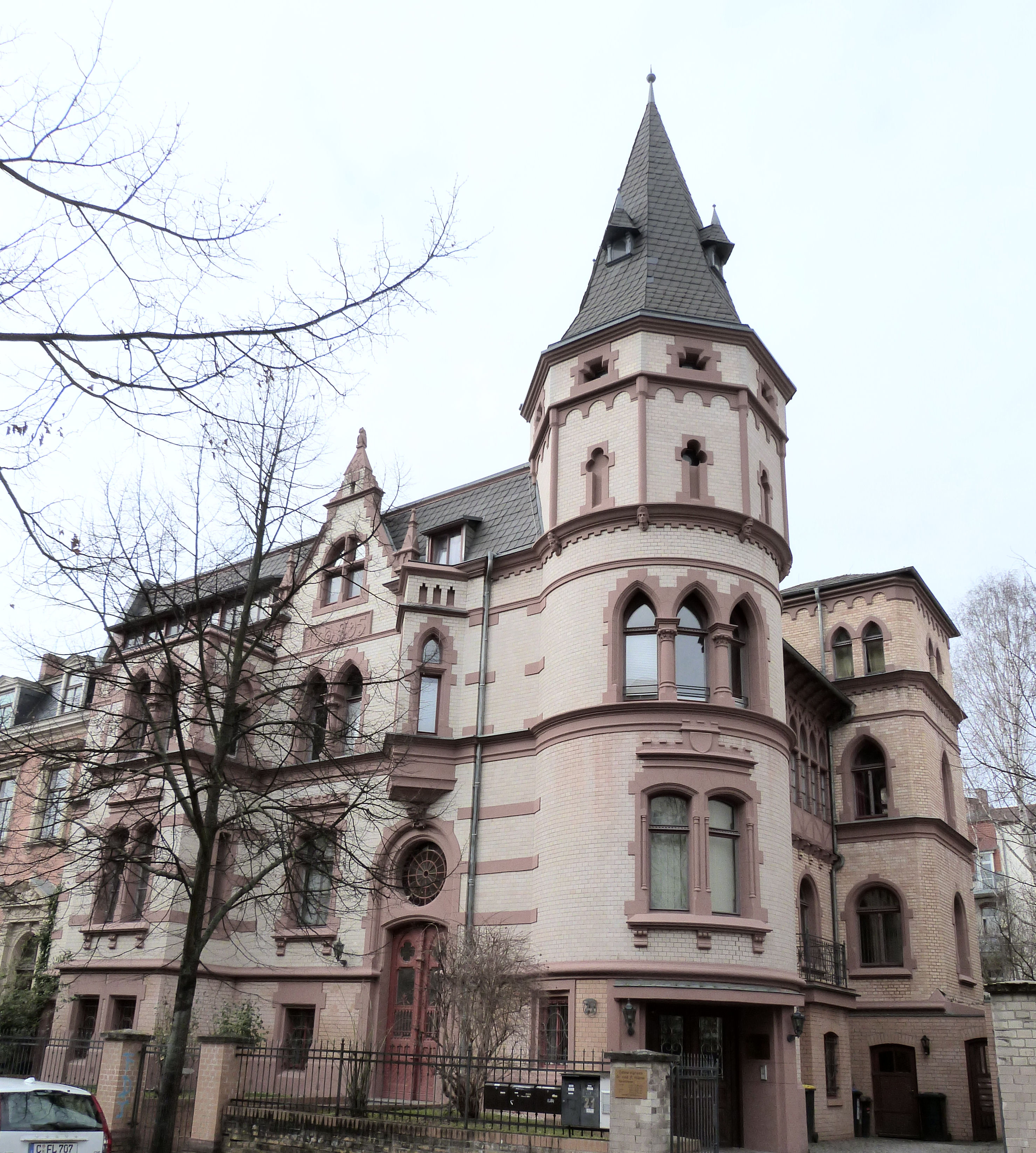 Villa Schroedel, Reichardtstrasse No. 21, Halle (Saale), built in 1895, architect: Friedrich Fahro